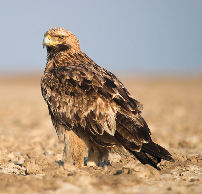 Juvenile moulting into adult plumage at the Little Rann of Kutch